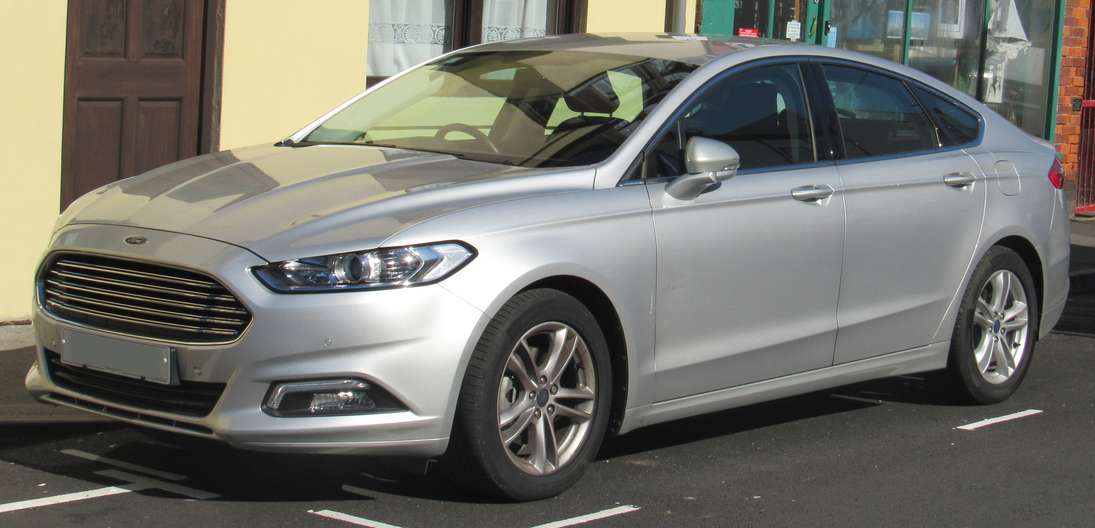 2016 Ford Mondeo Zetec 1.5 Front Taken in Weymouth, Dorset